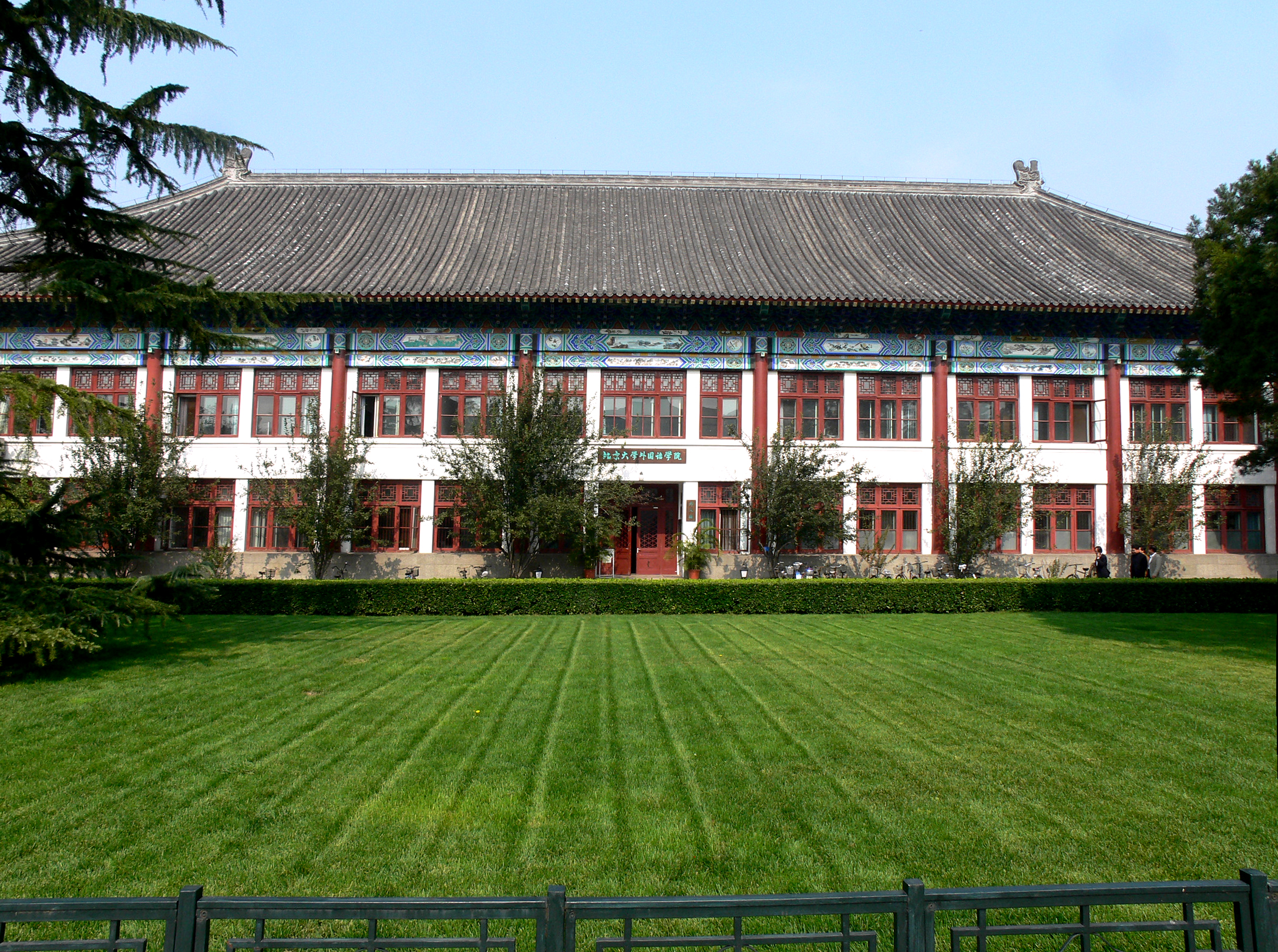 School of Foreign Languages at the Peking University